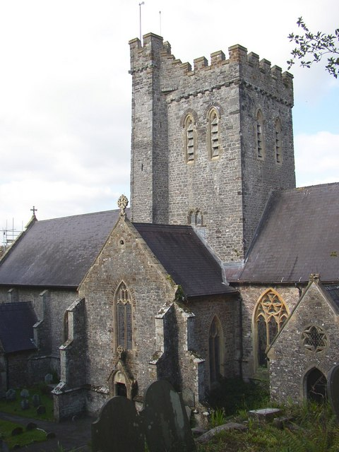 The tower of Laugharne Church The church is basically 13C, but restored in 1873.